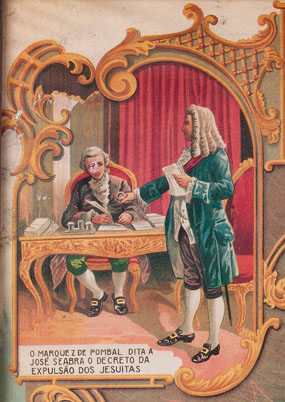 Illustrations of notable episodes of the government of the Marquis de Pombal.